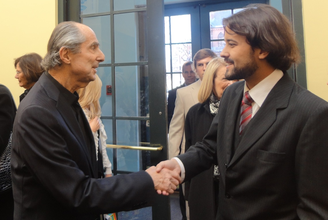 Philip Roth meets Felipe Franco Munhoz in Newark, 2013.